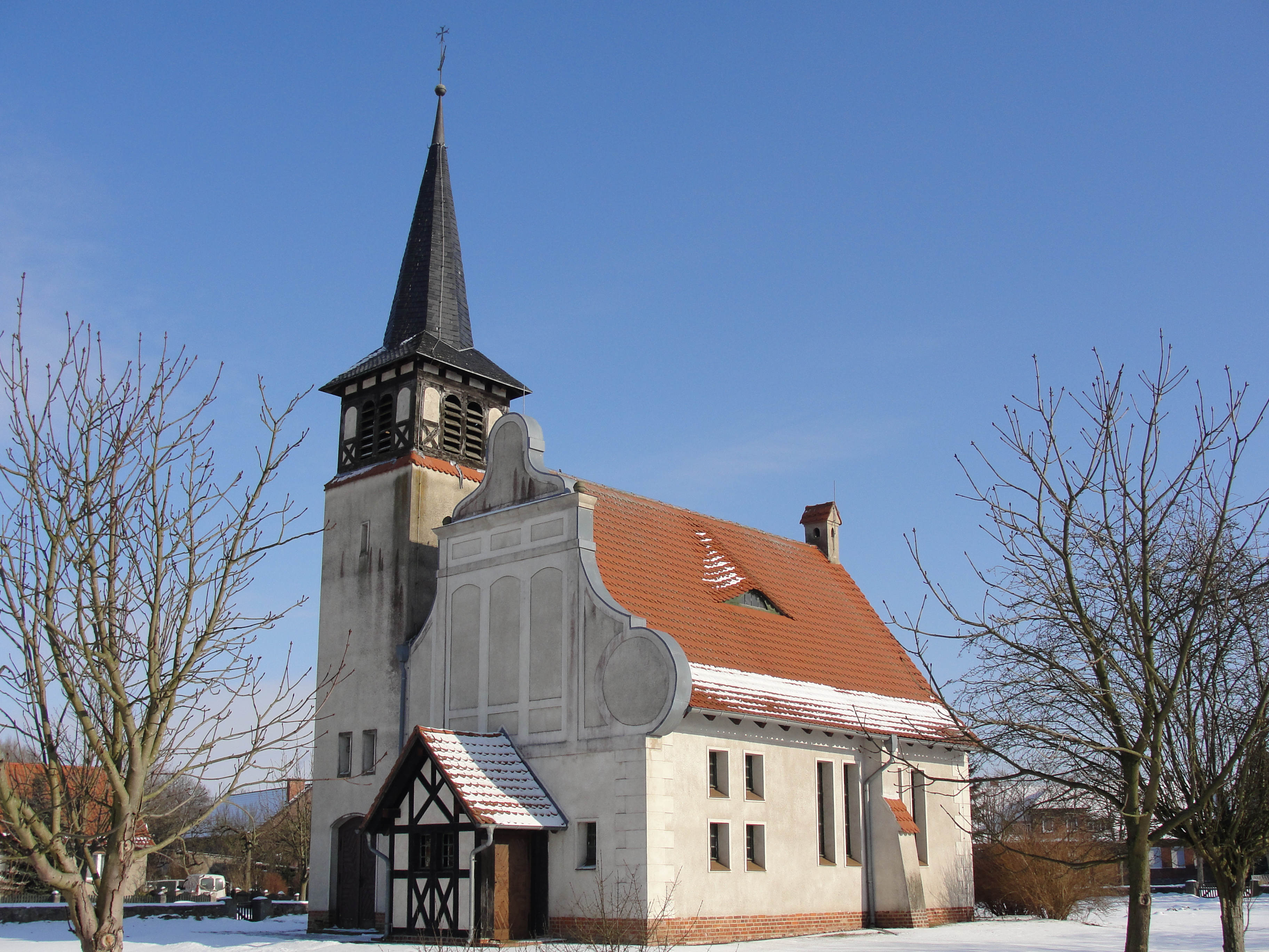 Church in the village of Helle, Prignitz, Brandenburg.